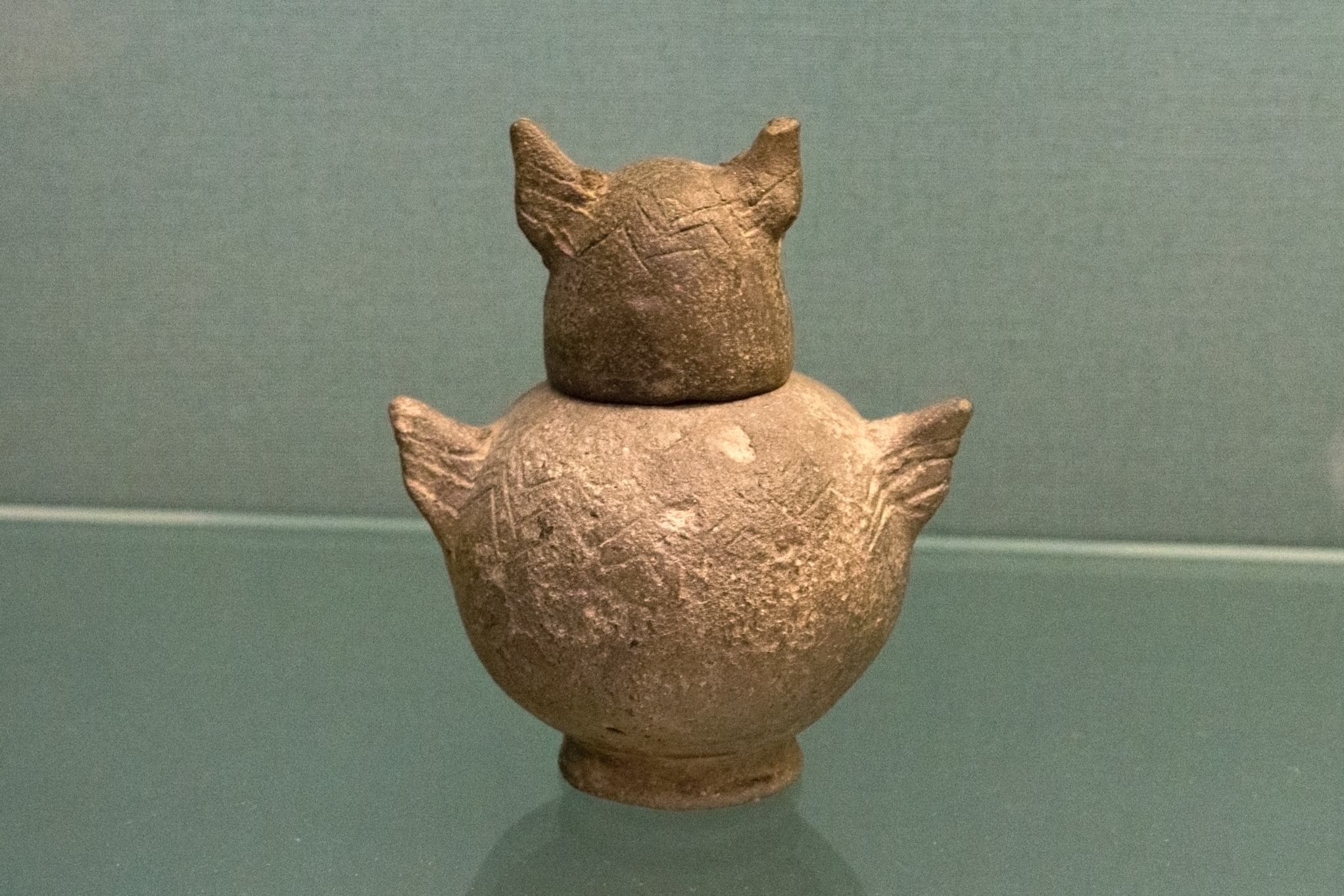 Hand-made owl-shaped vessel, pottery from Bayindirköy near Yortan, West Turkey, Early Bronze Age, about 2700 BC. British Museum, ME 134687.